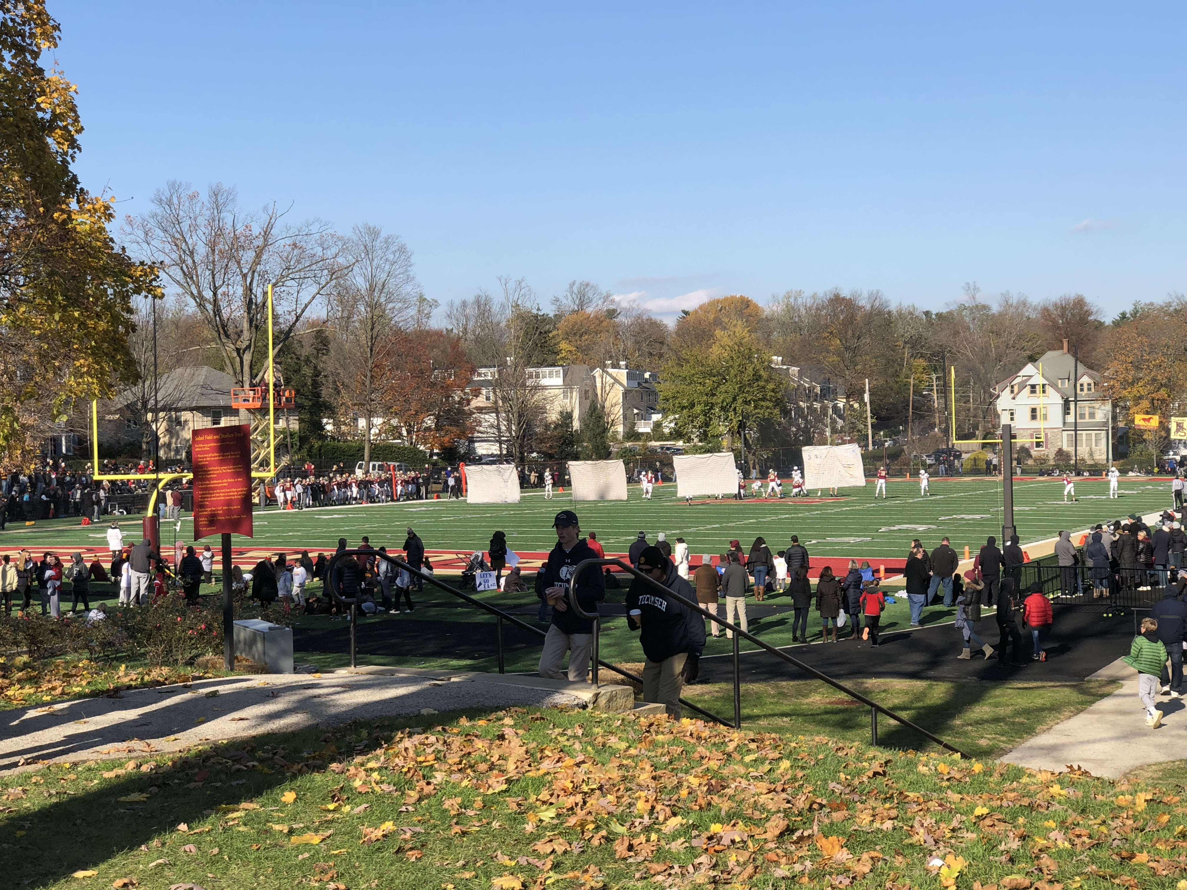 Haverford-EA game